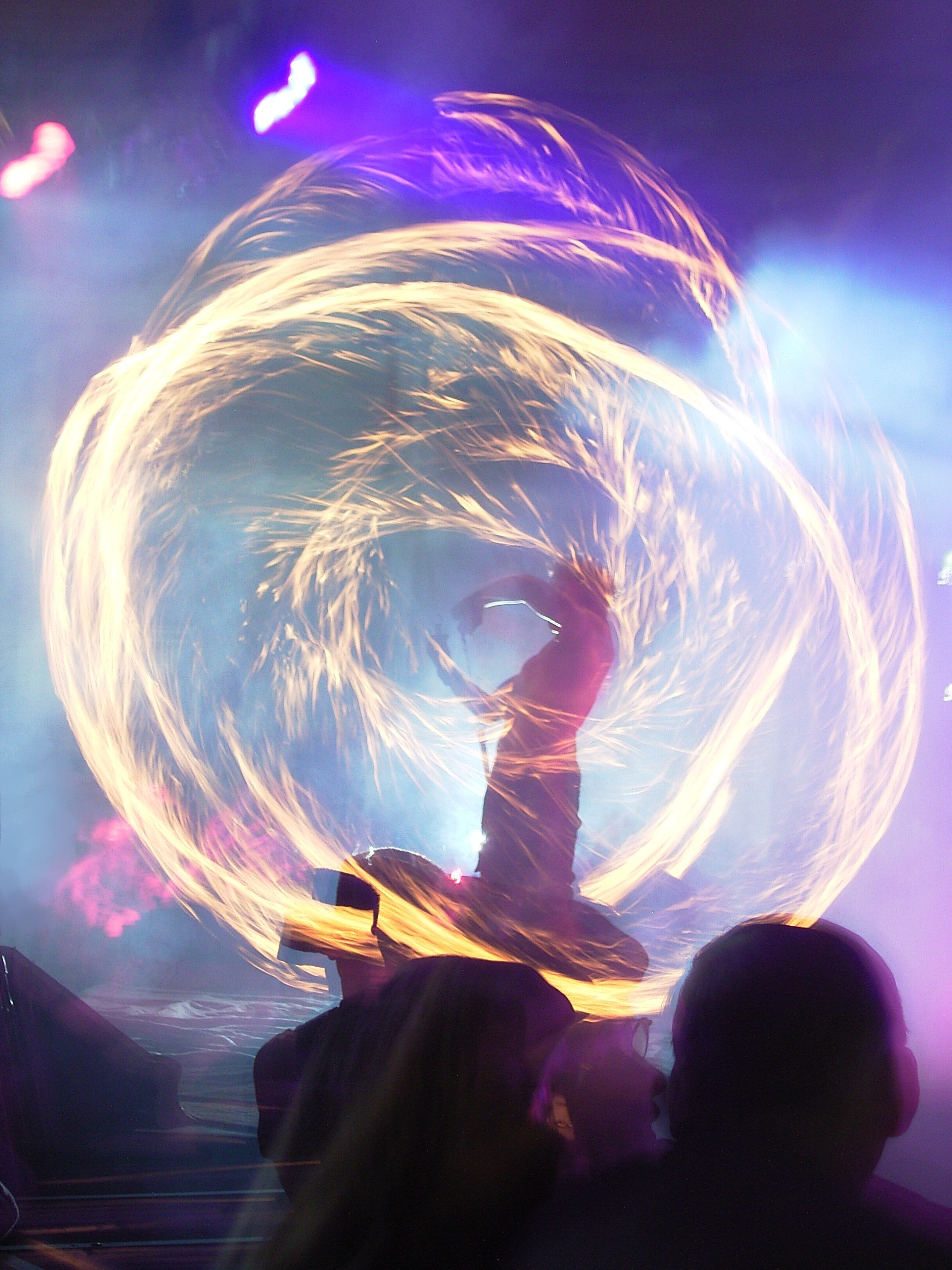 Flamejuggler